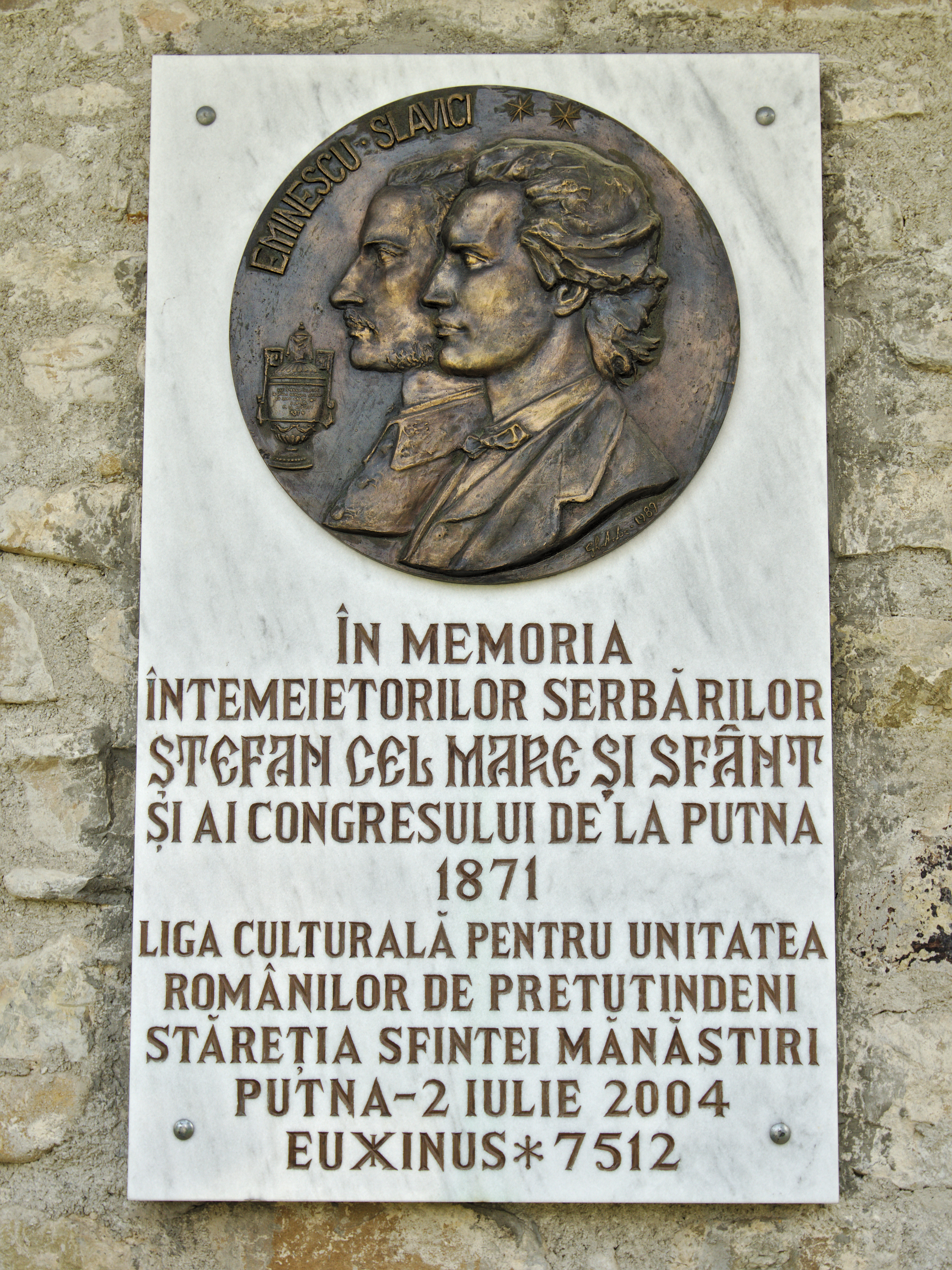 Plate for Mihai Eminescu and Ioan Slavici, Putna Monastery, Putna, Romania